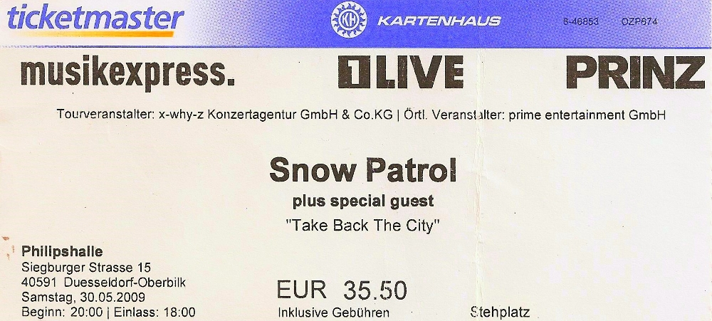 Snow Patrol Take Back The City Ticket for Germany, Düsseldorf